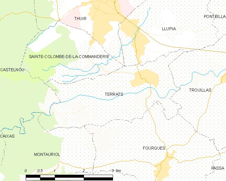 Map of French municipality